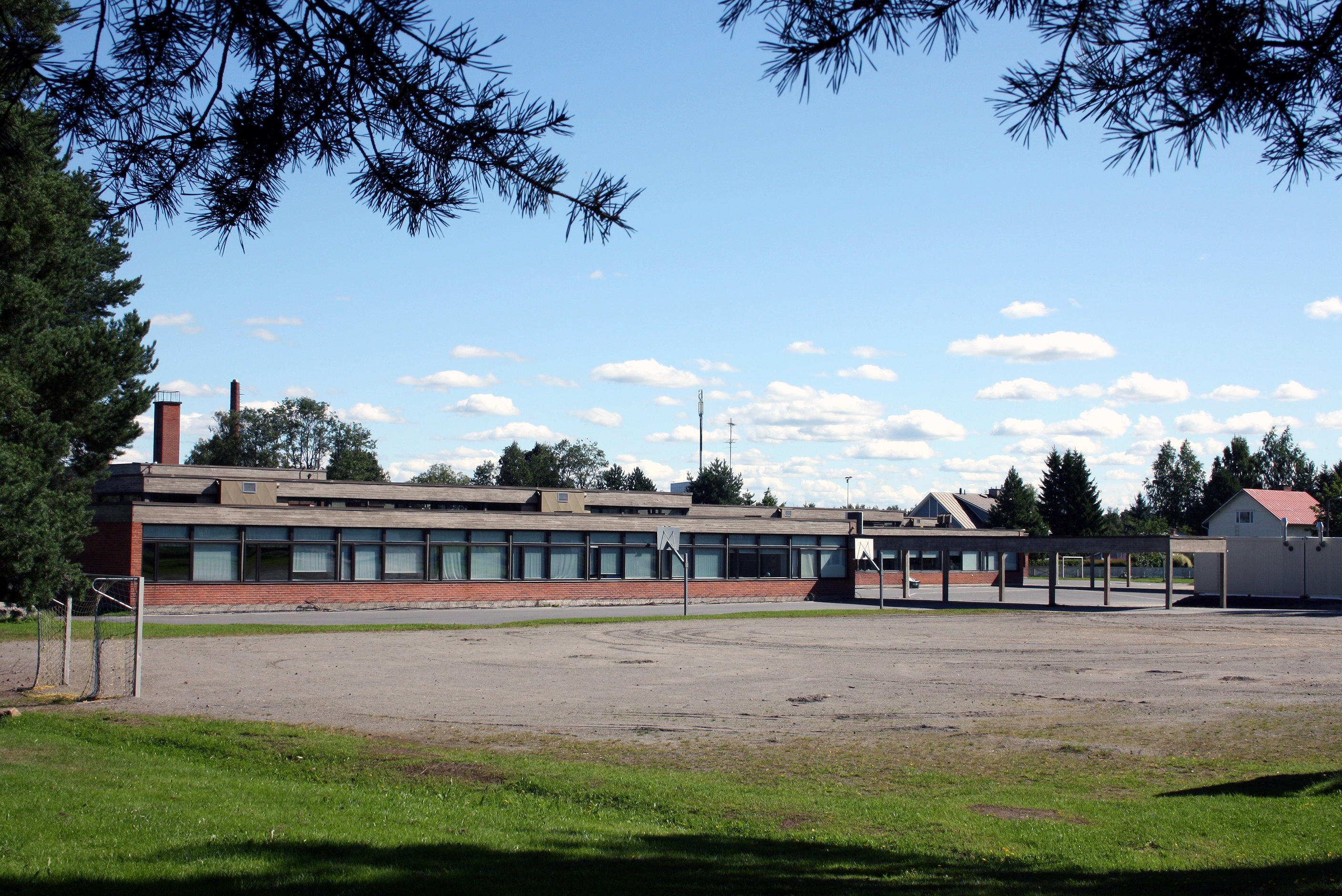 Torkinmäki school in Kokkola, Finland.